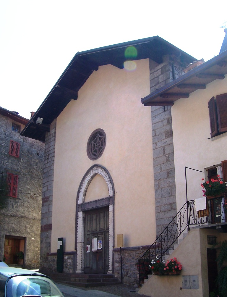 Facade, St Mary. Bienno, Val Camonica